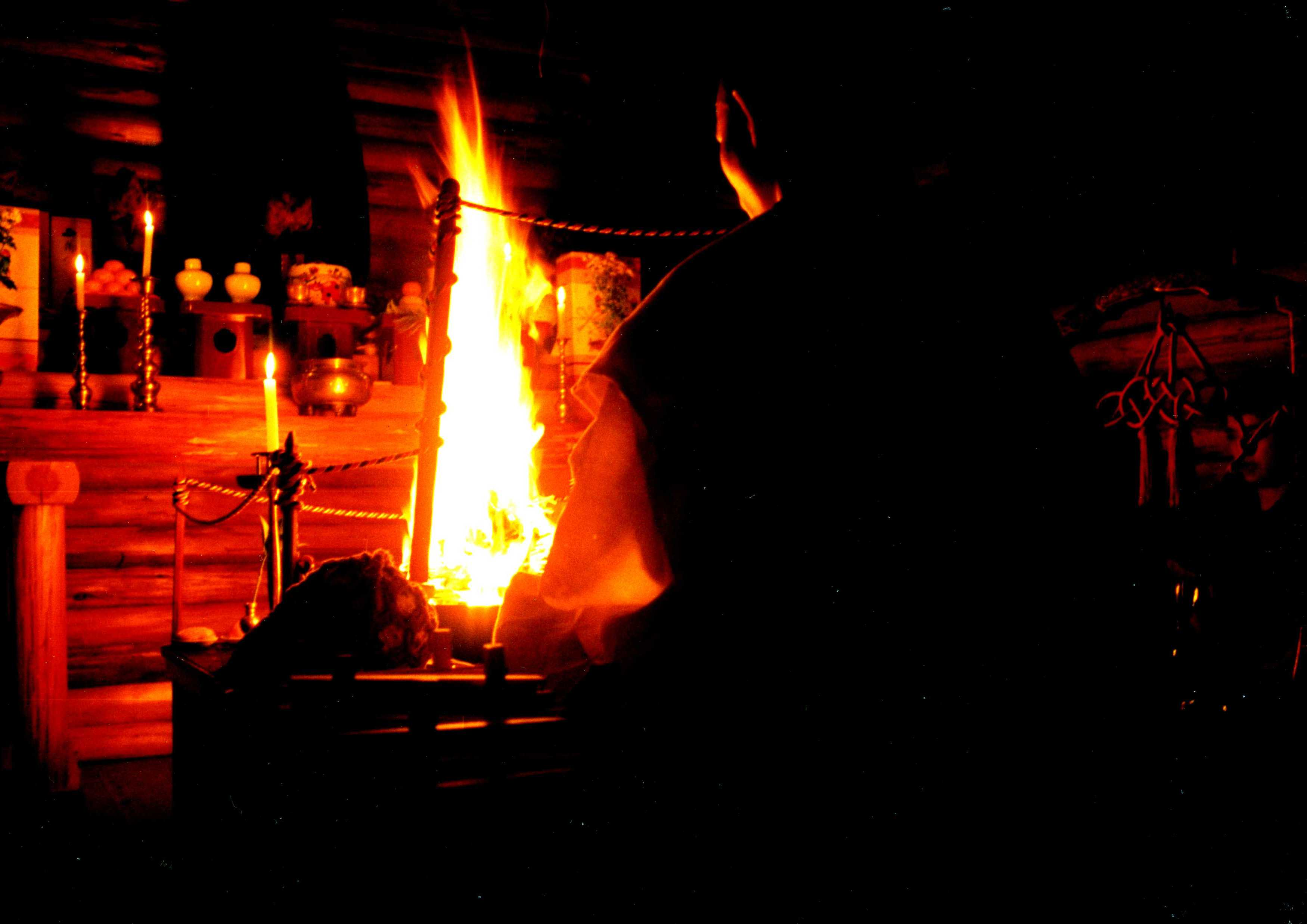 Goma ceremony